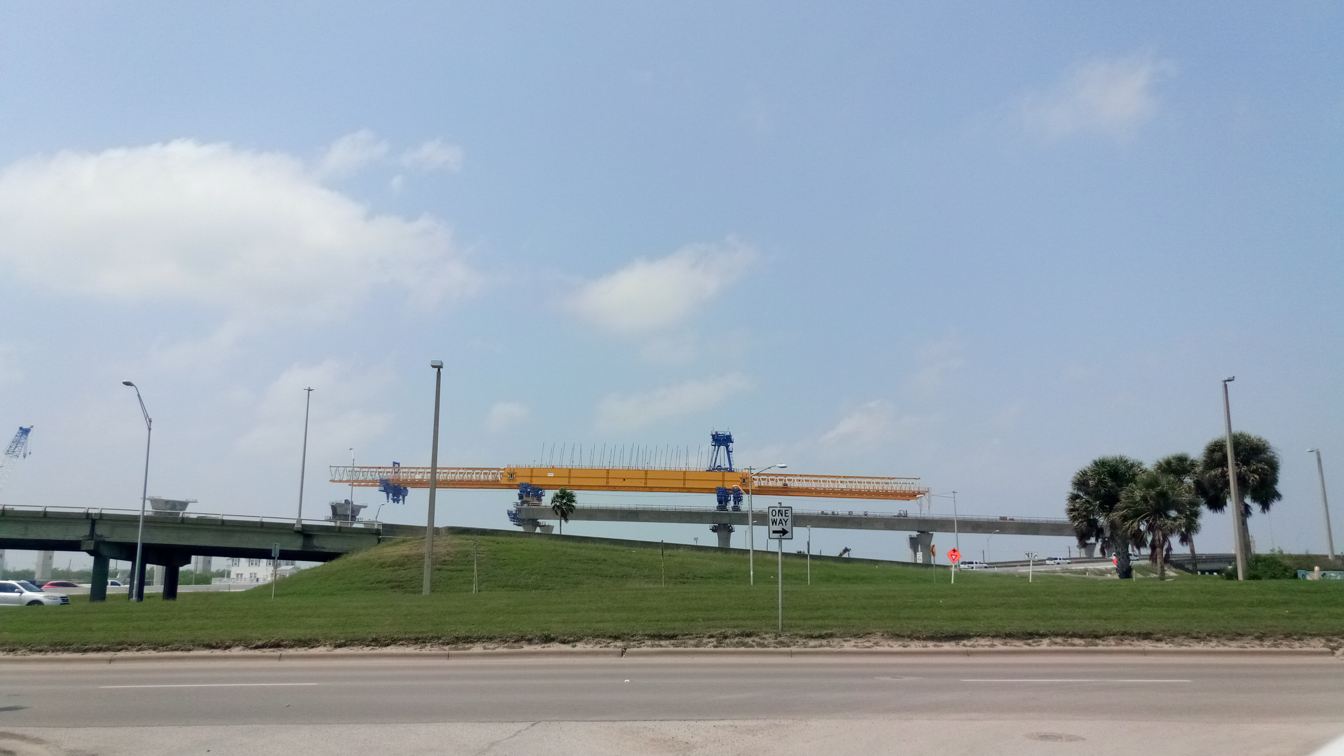 New Harbor Bridge under construction in North Beach / Rincon Point, April 2019.